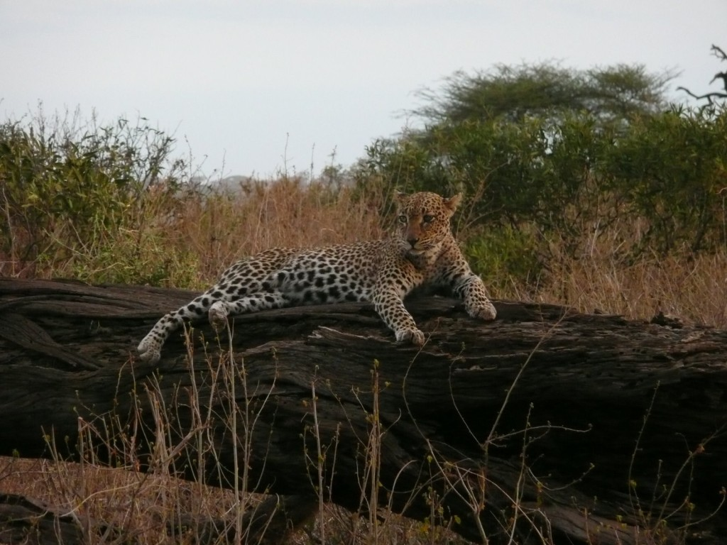 African Leopard in Samburu National Reserve, Kenya.